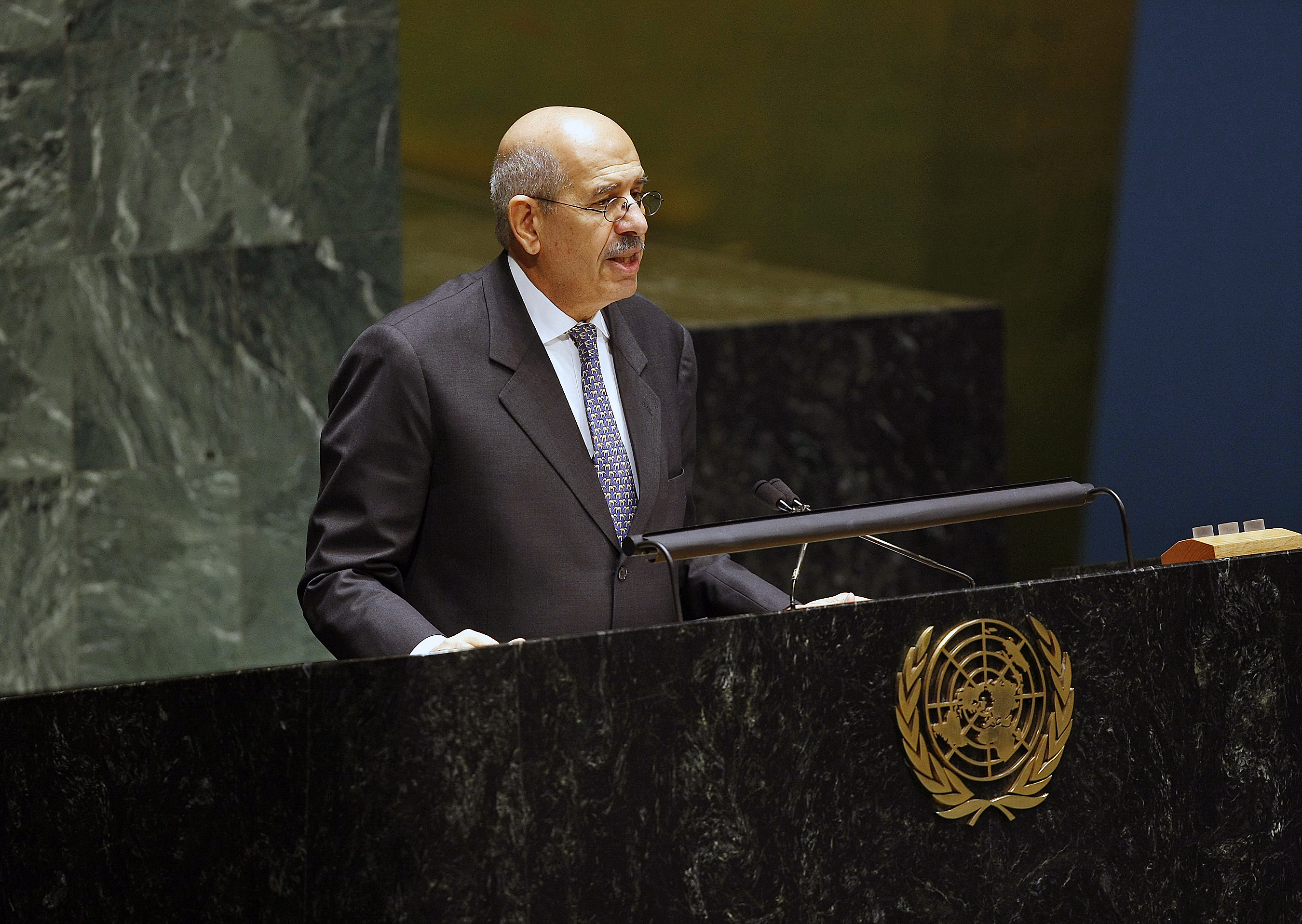 IAEA Director General Mohamed ElBaradei Addresses General Assembly Mohamed ElBaradei, Director General of the International Atomic Energy Agency (IAEA), addresses the UN General Assembly regarding the agency's report. United Nations, New York, 2 November 2009